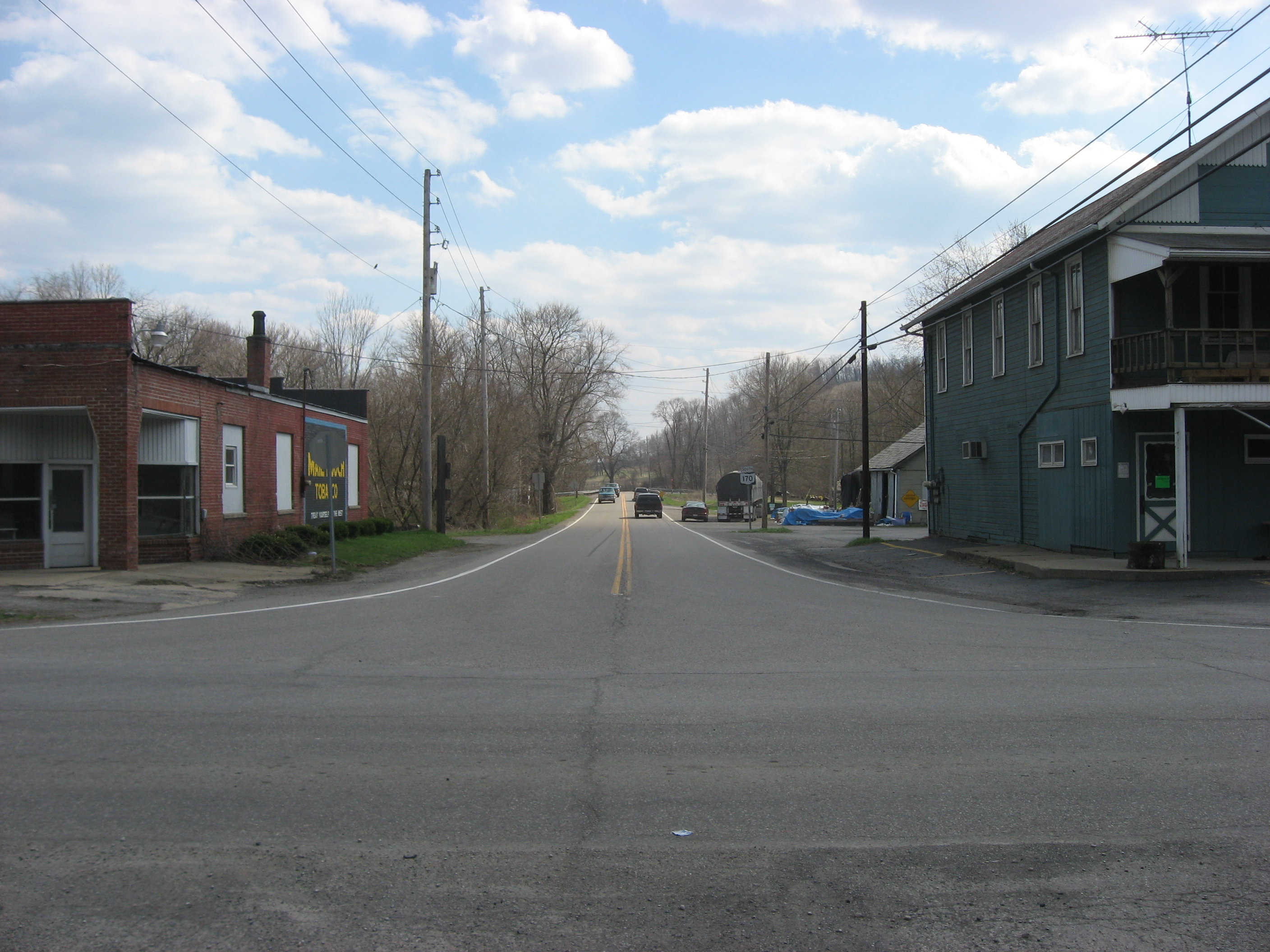 Southward along State Route 170 at its intersection with State Route 154 in central Negley, Ohio, United States.